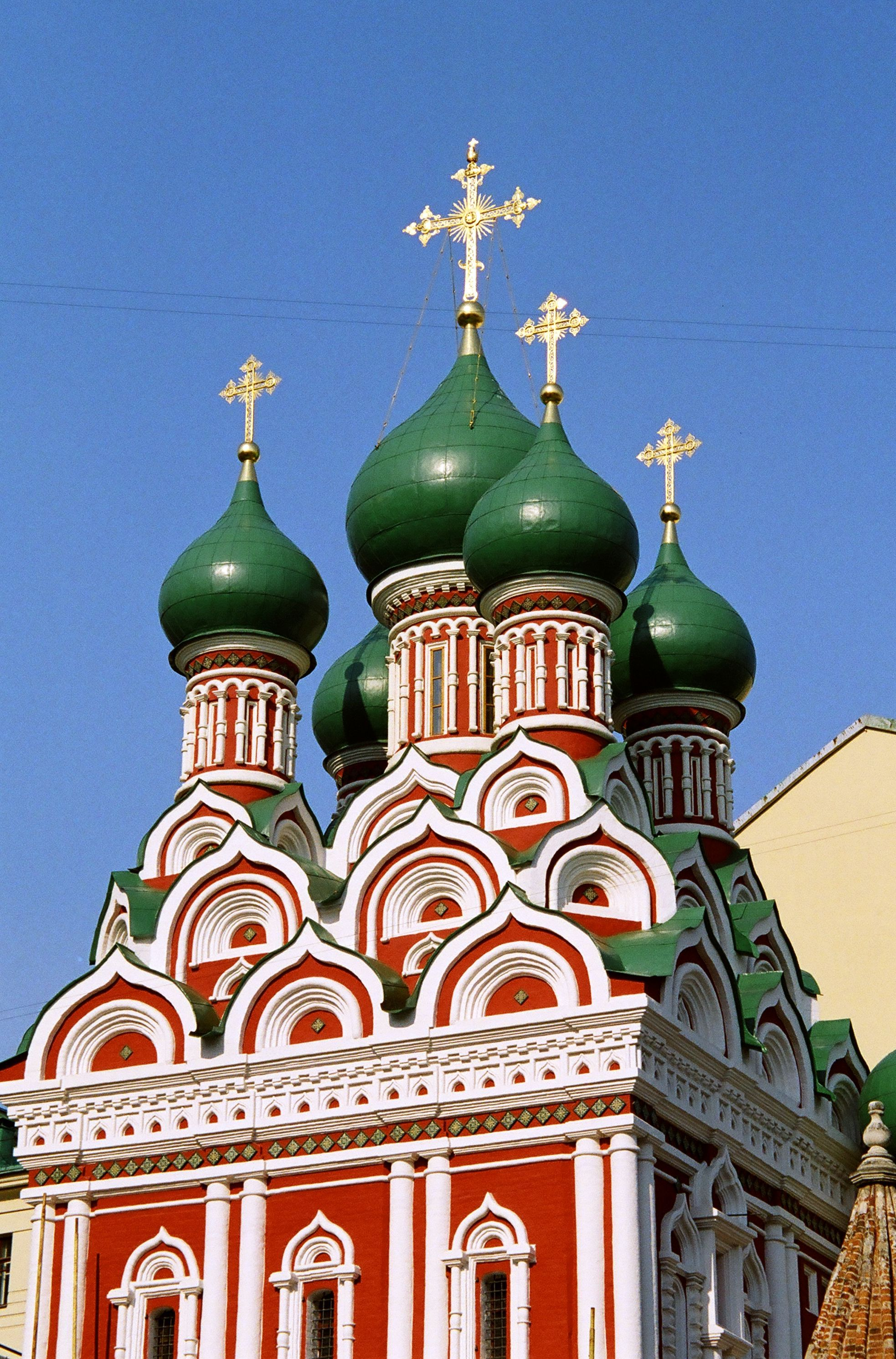 Church of the Holy Trinity, Moscow